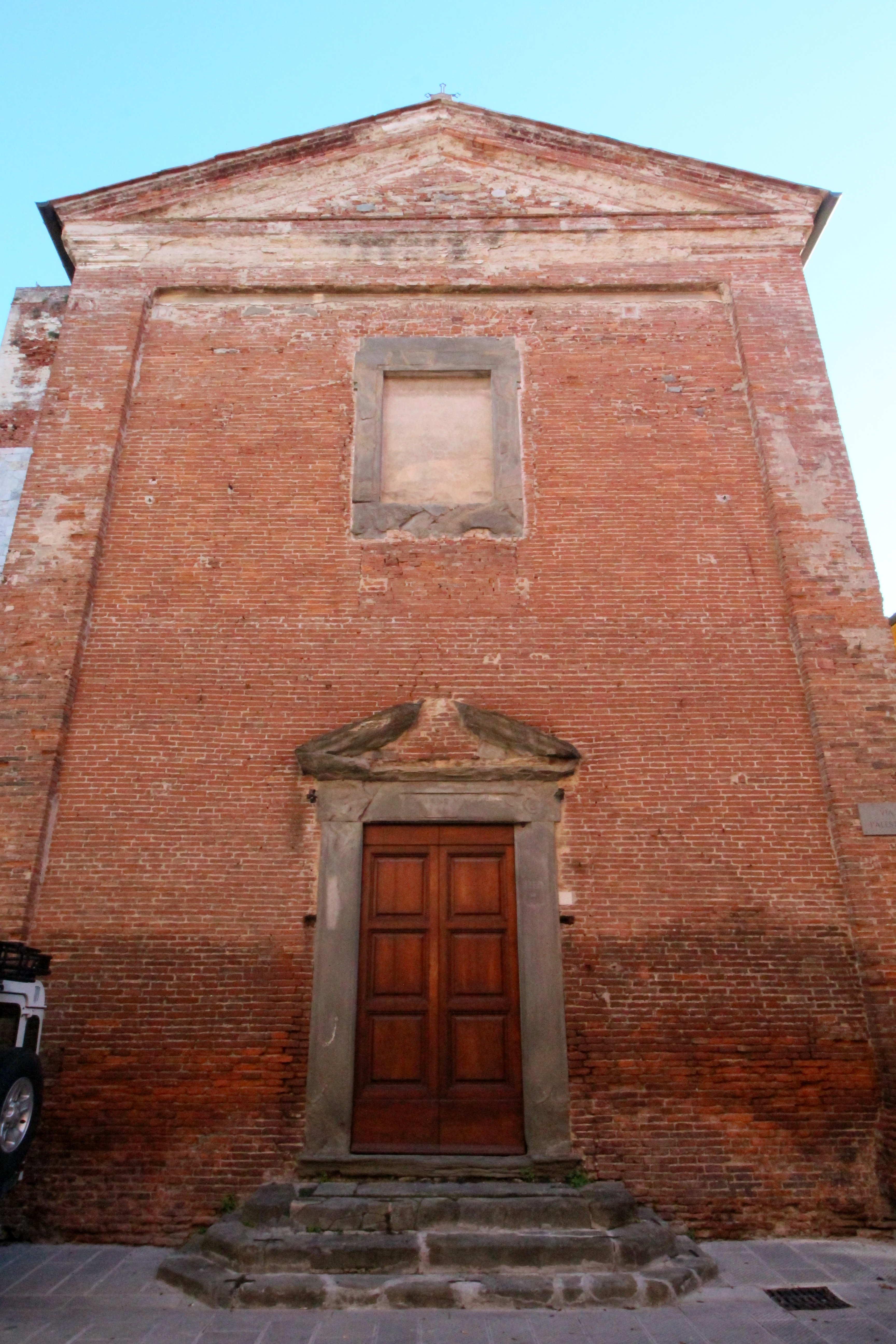 Church Santa Croce (also Oratorio di Santa Croce, Compagnia della Santa Croce, Compagnia della Misericordia), Cascina, Province of Pisa, Tuscany, Italy.